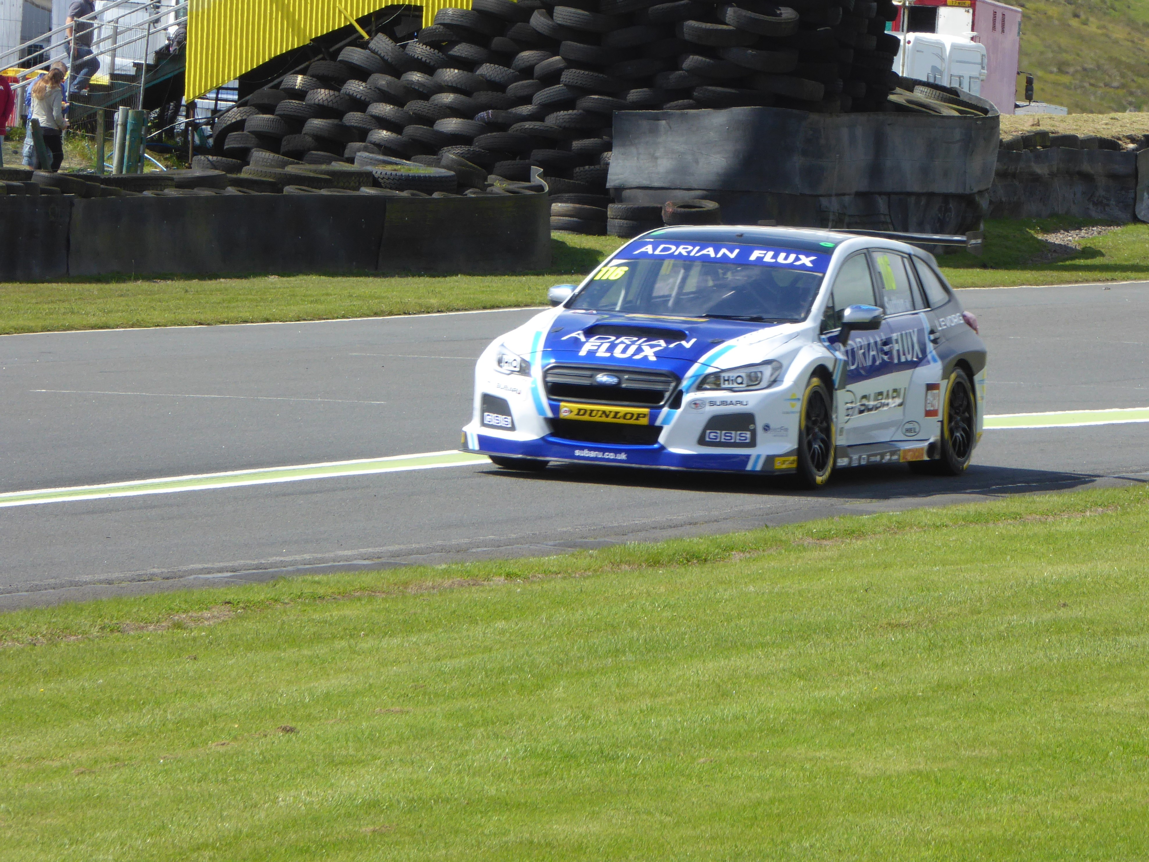 Ashley Sutton (Adrian Flux Subaru Racing), pictured at the Knockhill round of the 2017 British Touring Car Championship.